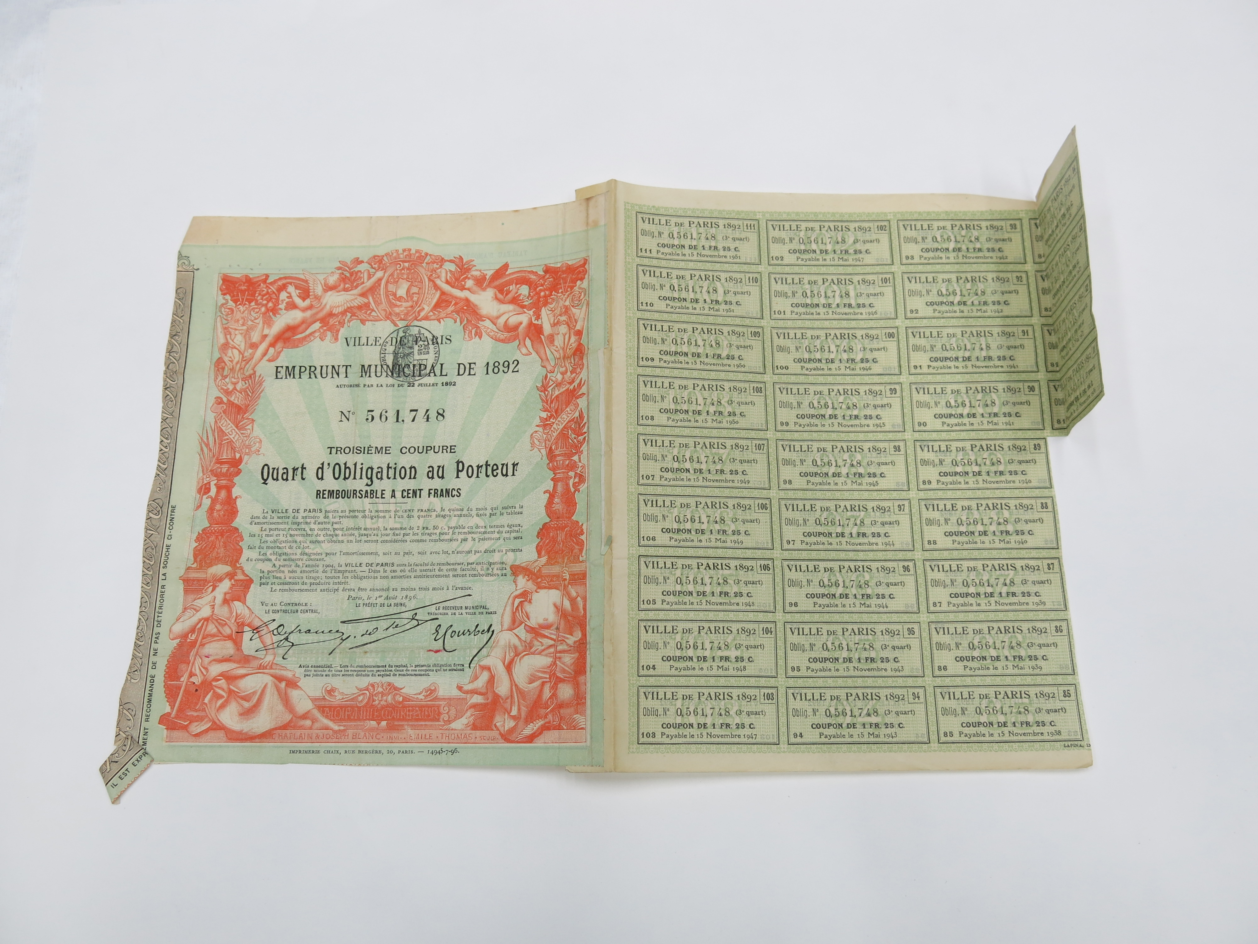 Loan certificate Ville de Paris 100 francs; serial number 561748, printed in black on orange and light green obverse and printed in black reverse. Attached on right are removable coupons. Pages taped together.